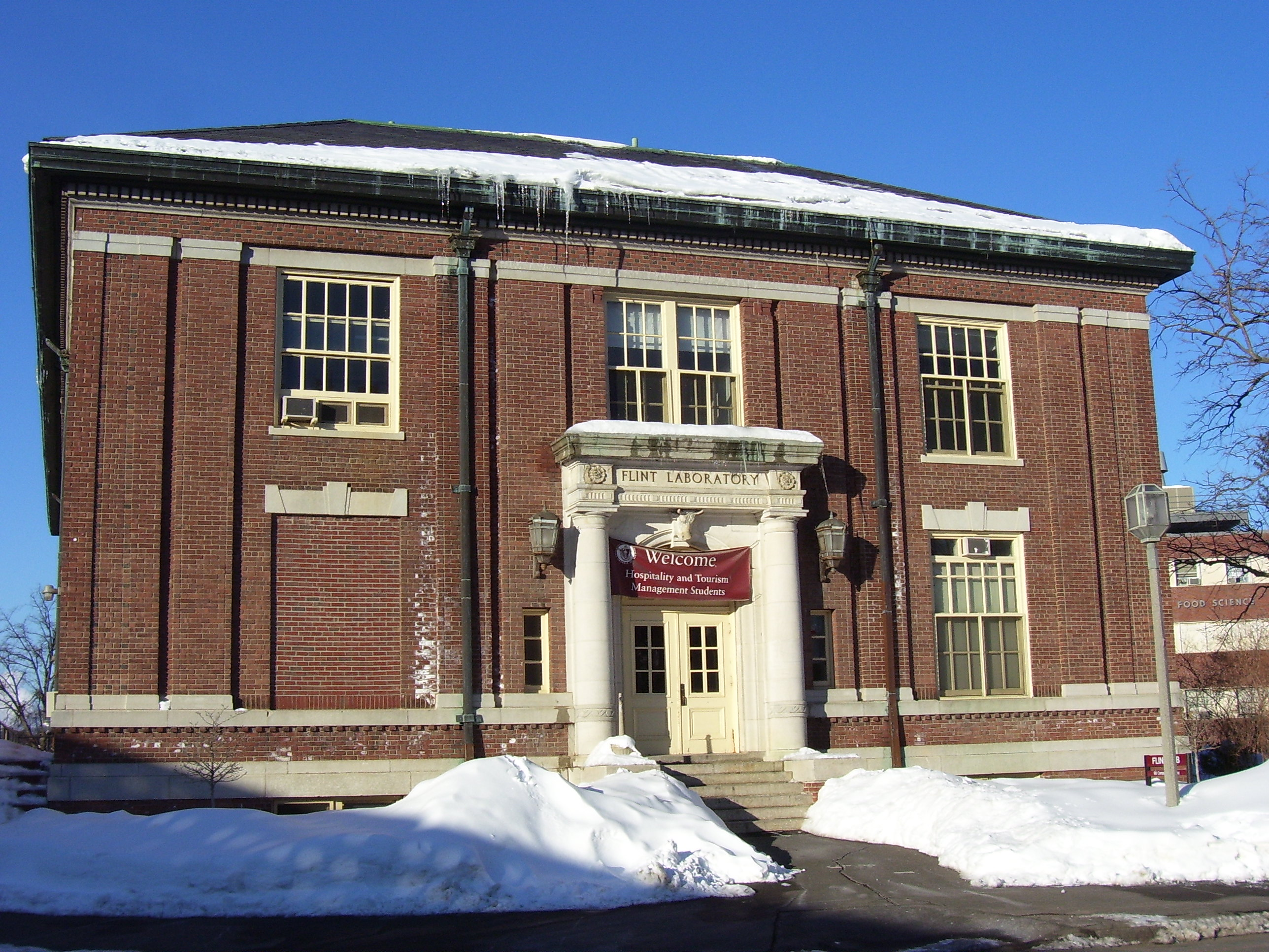 The front facade of Flint Laboratory. At present it is used as the offices and classrooms of the Hospitality and Tourism Management program at the University of Massachusetts Amherst. The filled-in window was part of a temperature controlled storage room originally used in the building's days as a dairy laboratory, it is unknown if it is still used today. Note the statue of the cow's head over the doorway. At one time the building also accommodated a "dairy bar" not unlike the one on the UConn Storrs campus, that space however is still used for "Fletcher's Café", a student-run restaurant managed by hospitality majors.